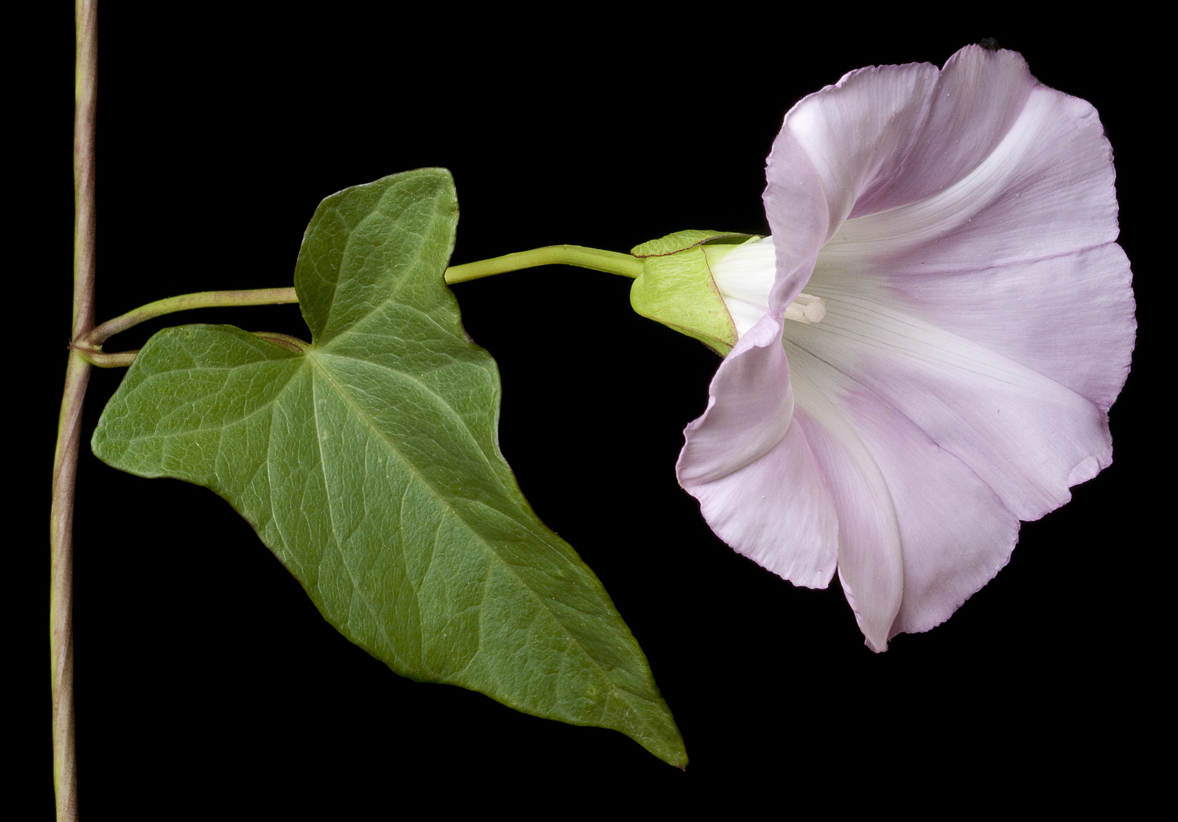 Calystegia sepium ssp. roseata